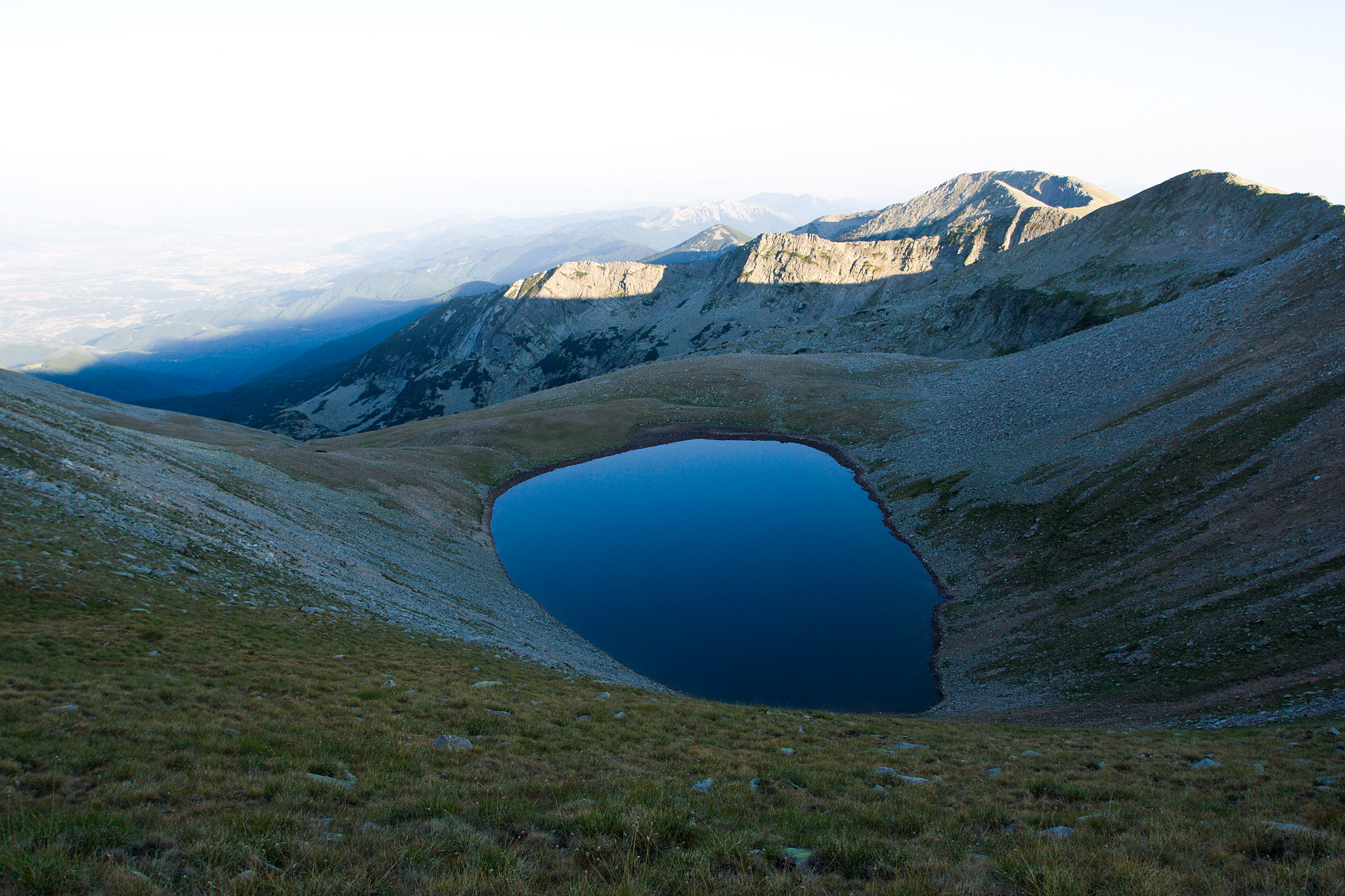 Gorno Breznishko ezero in Pirin mountain, Bulgaria